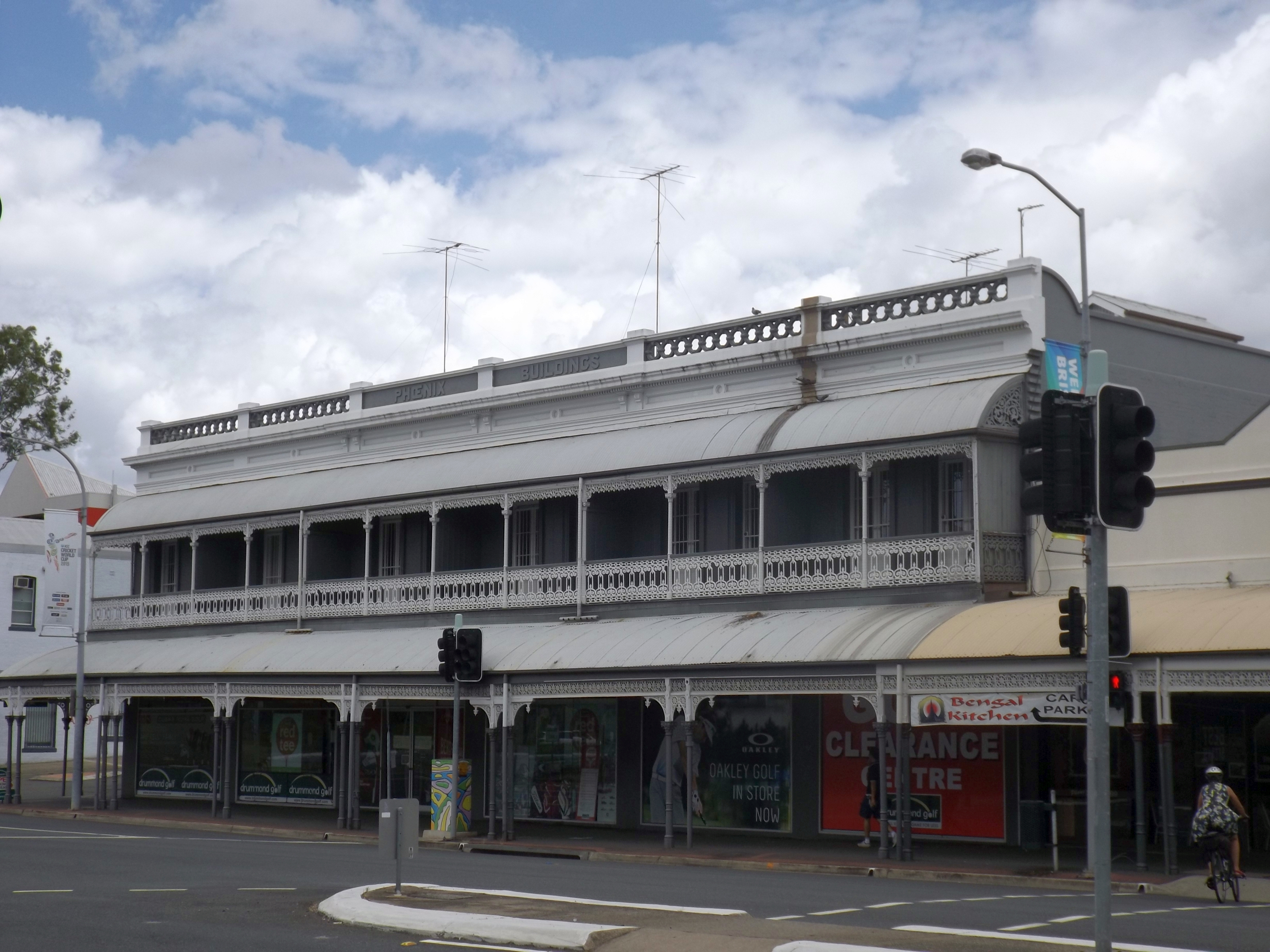 Photo of the Phoenix Buildings along Stanley Street at Woolloongabba, Brisbane, Queensland, Australia.